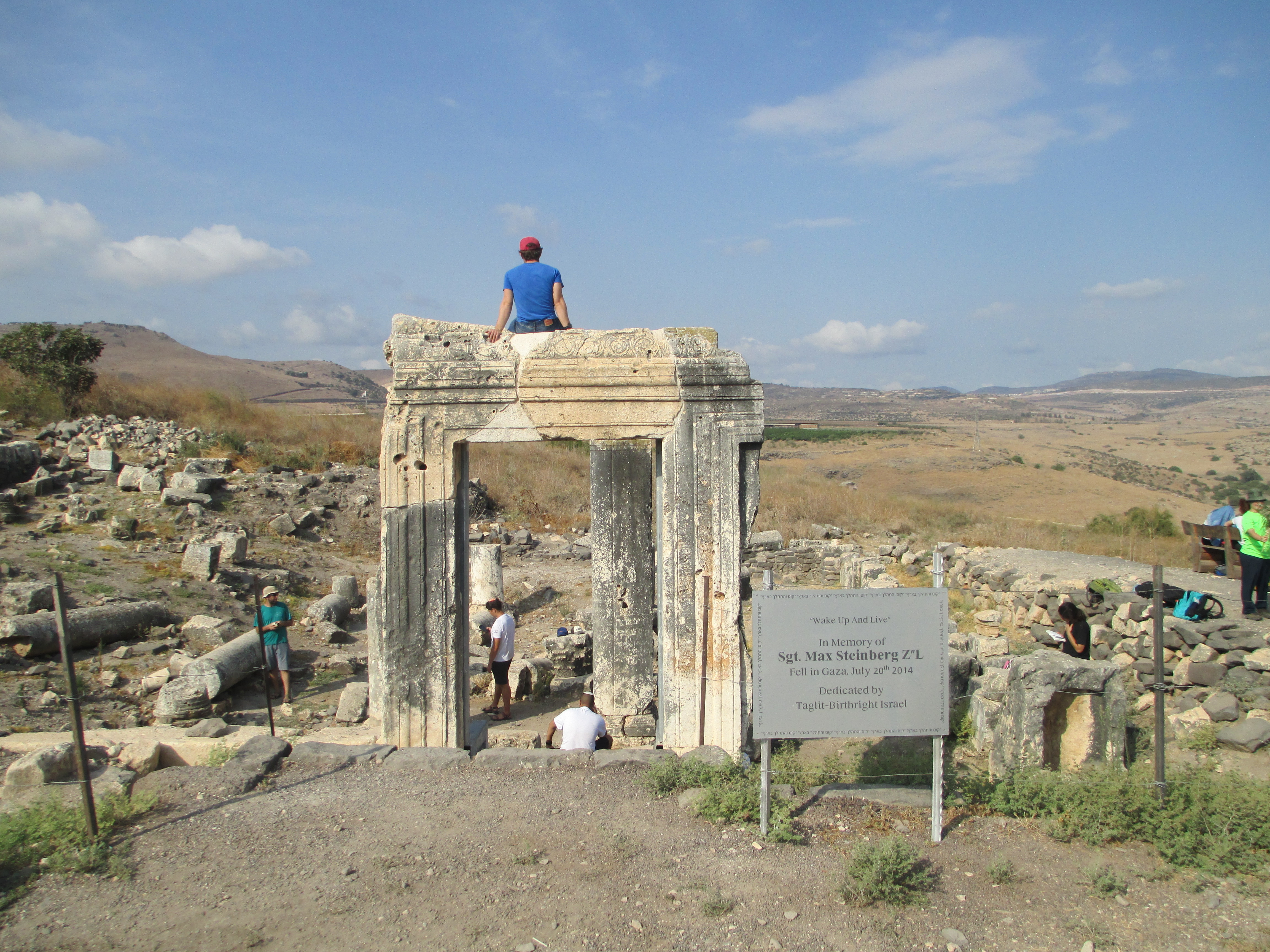 Ancient synagogue in Arbel